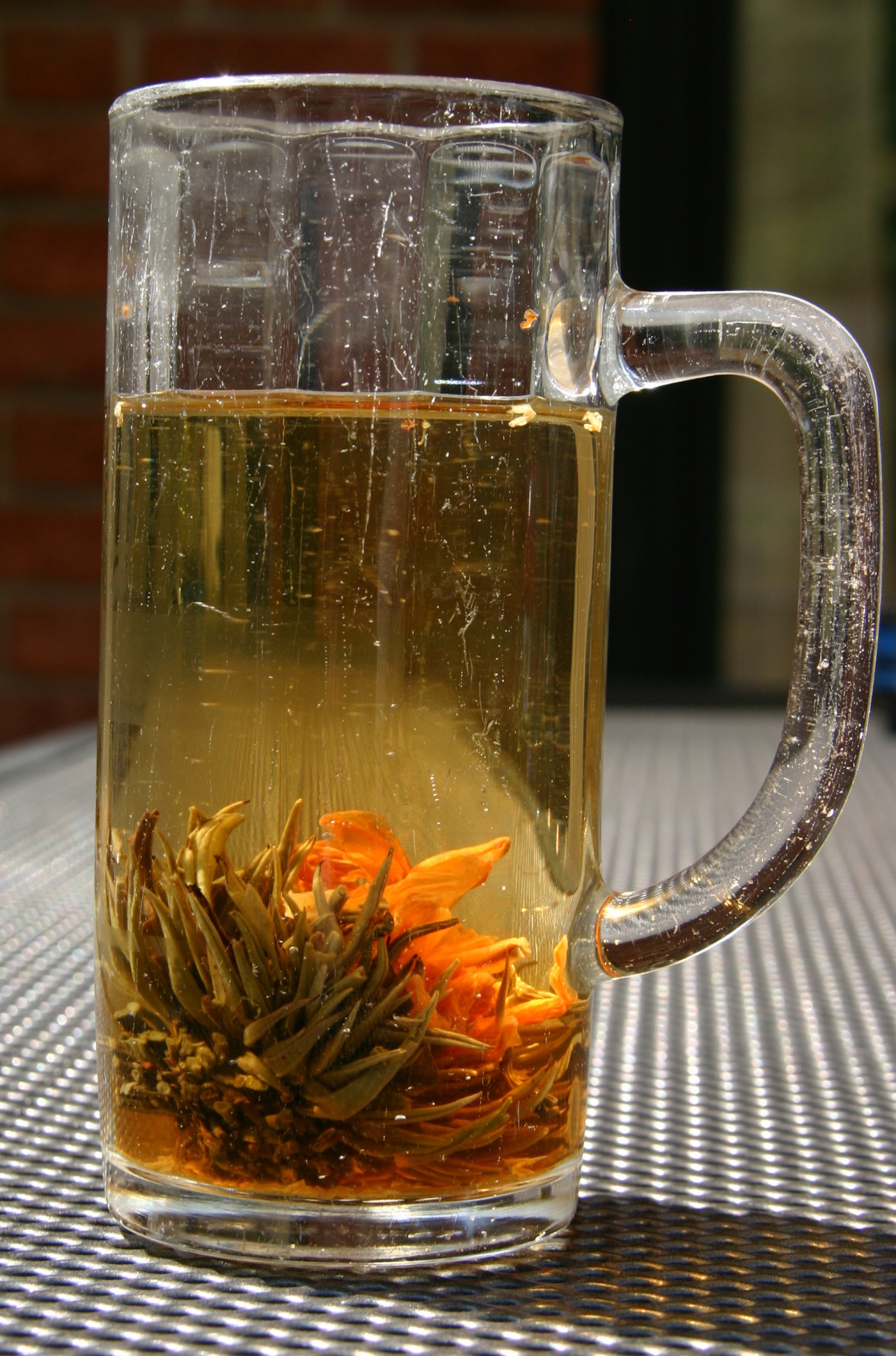 blossomed Jasmine tea